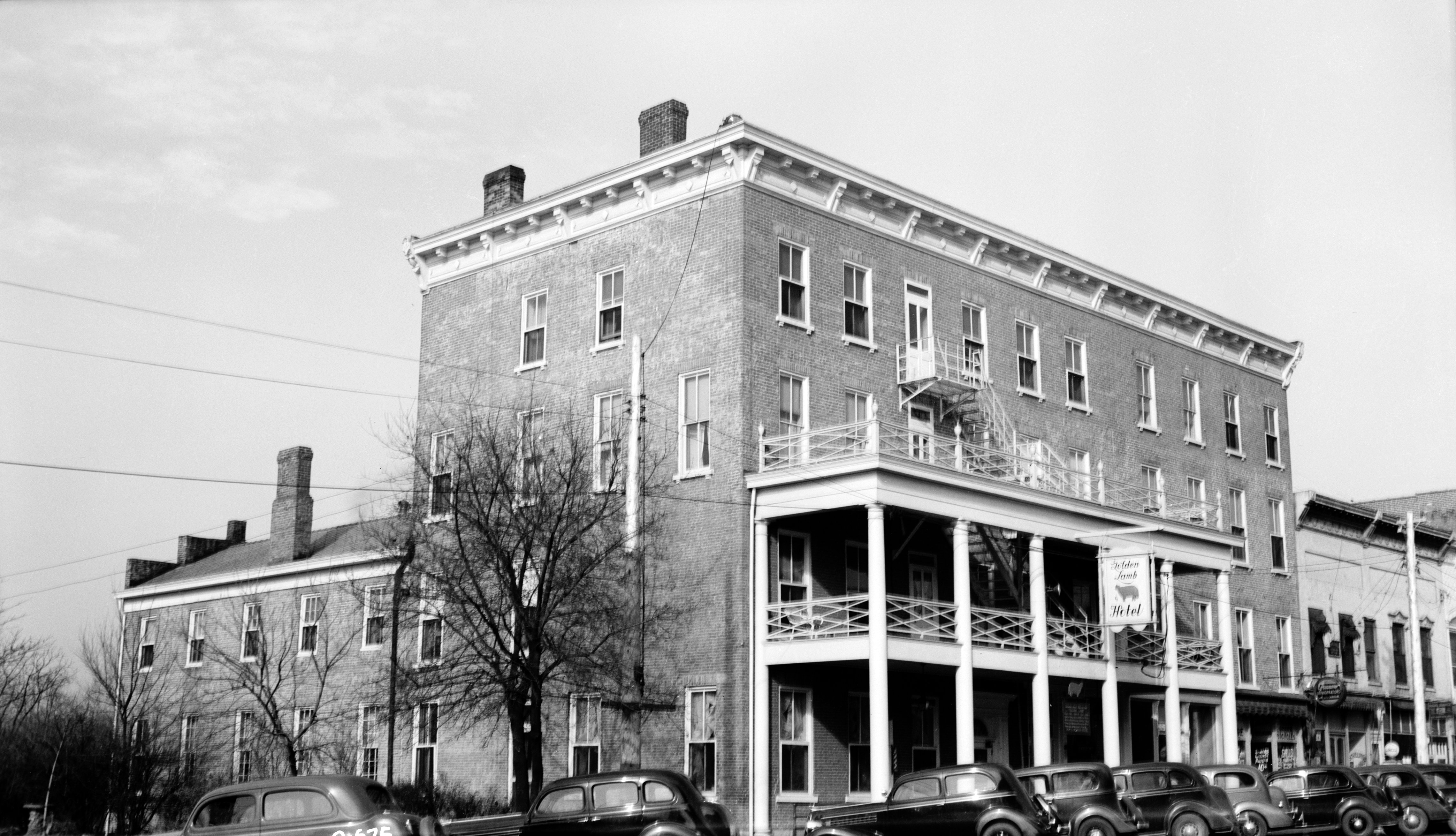 Golden Lamb Hotel, Main Street, Lebanon, Warren County, OHVIEW FROM SOUTHEAST